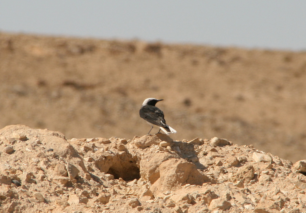 A male hooded wheater (Oenanthe monacha) sitting on a rock in the Negev, Israel